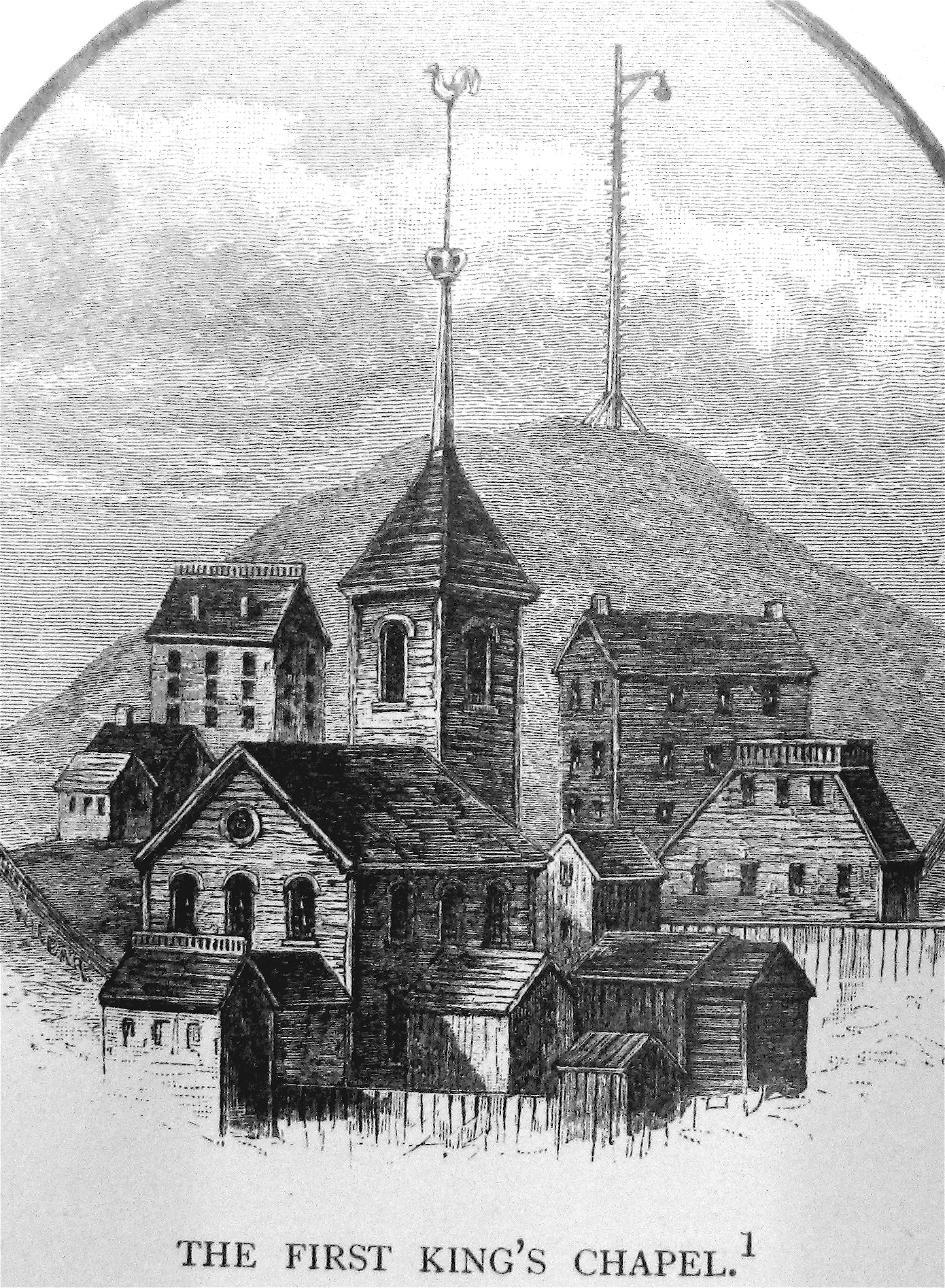 First King's Chapel building, Boston, before 1750s.